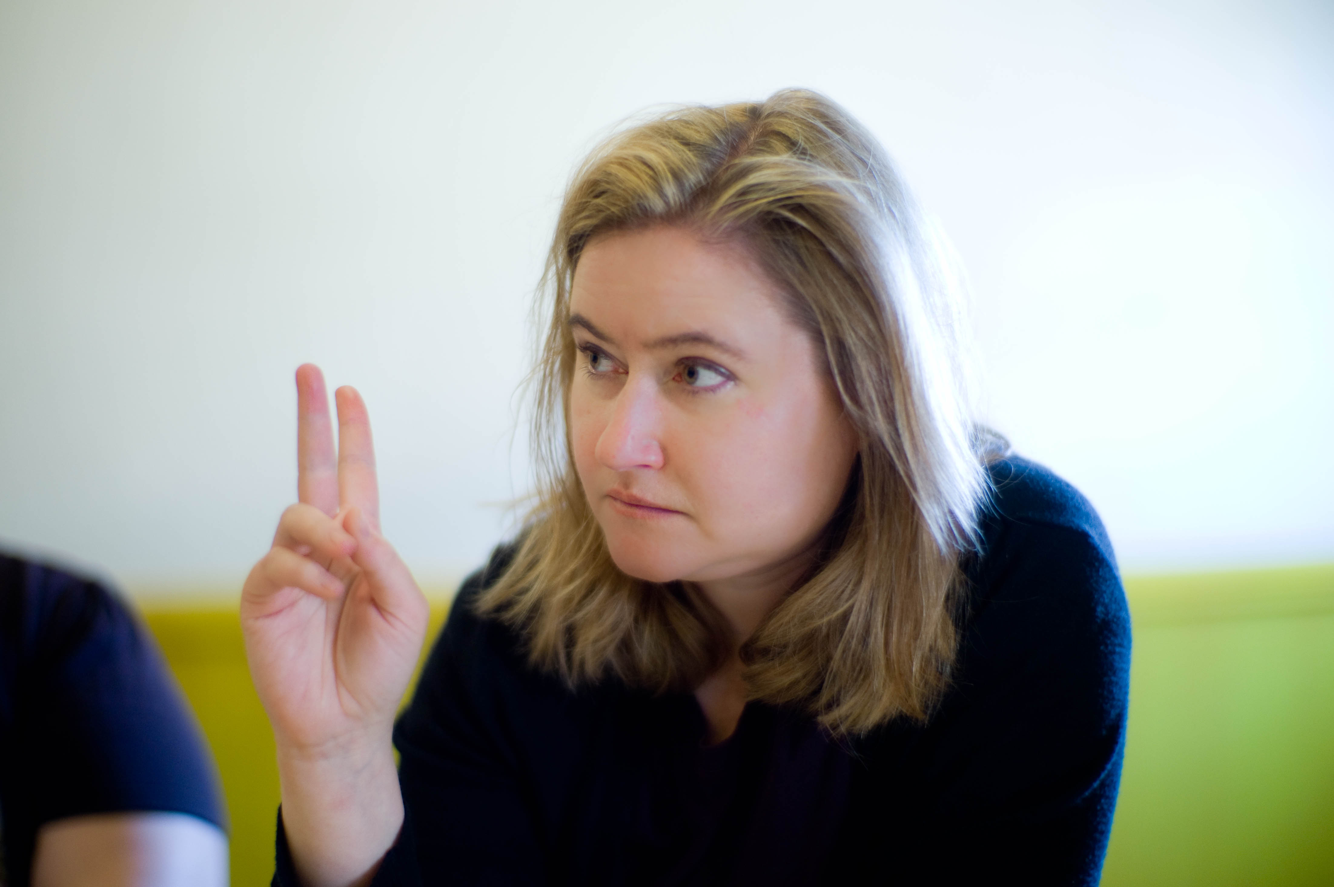 Rebecca MacKinnon